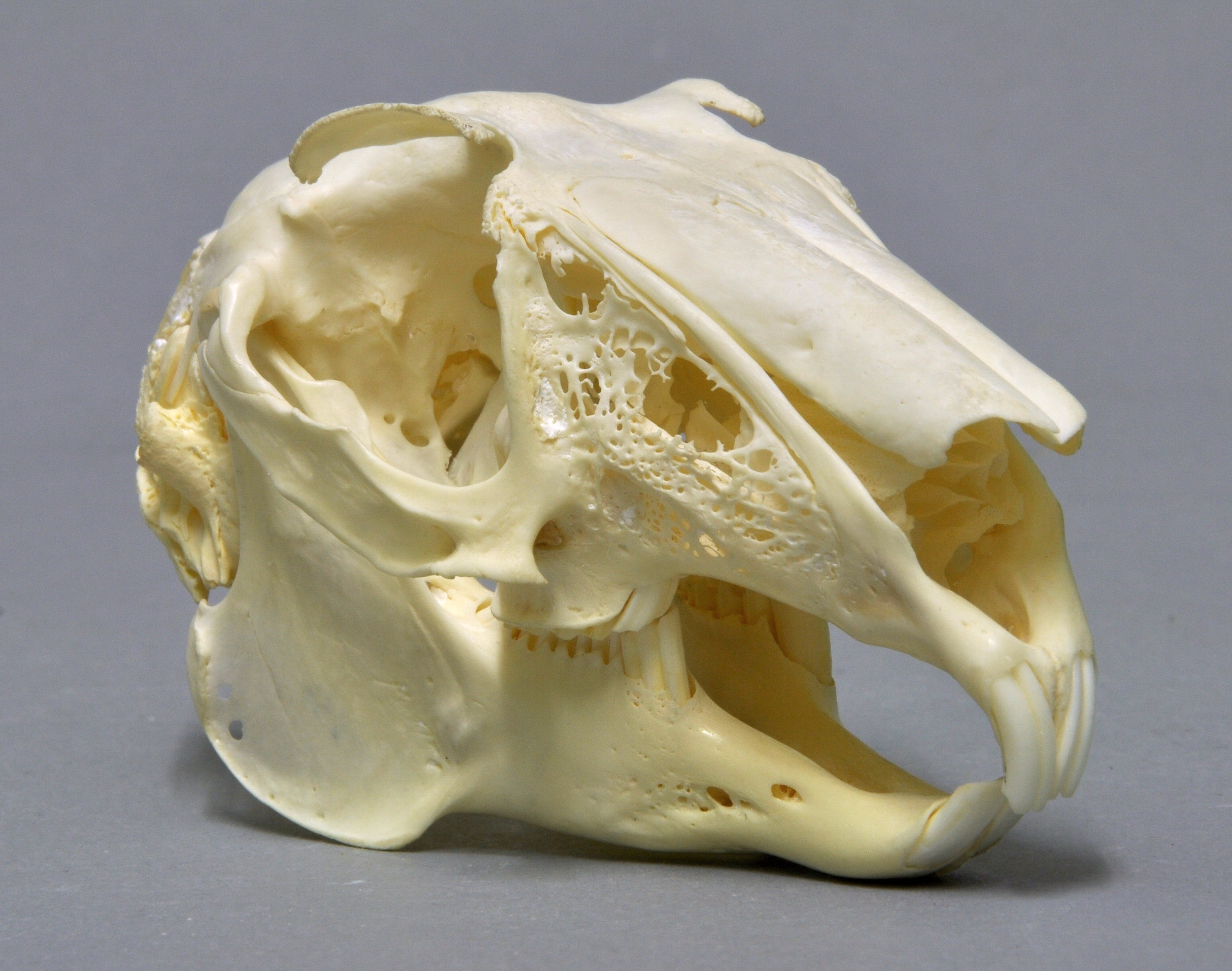 European hare Lepus europaeus , skull, Coll. Museum Wiesbaden